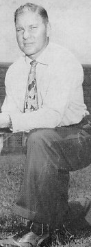 Scan of my 1947 University of Mississippi (Ole Miss) football media guide featuring Charlie Conerly and Johnny Vaught, both now deceased